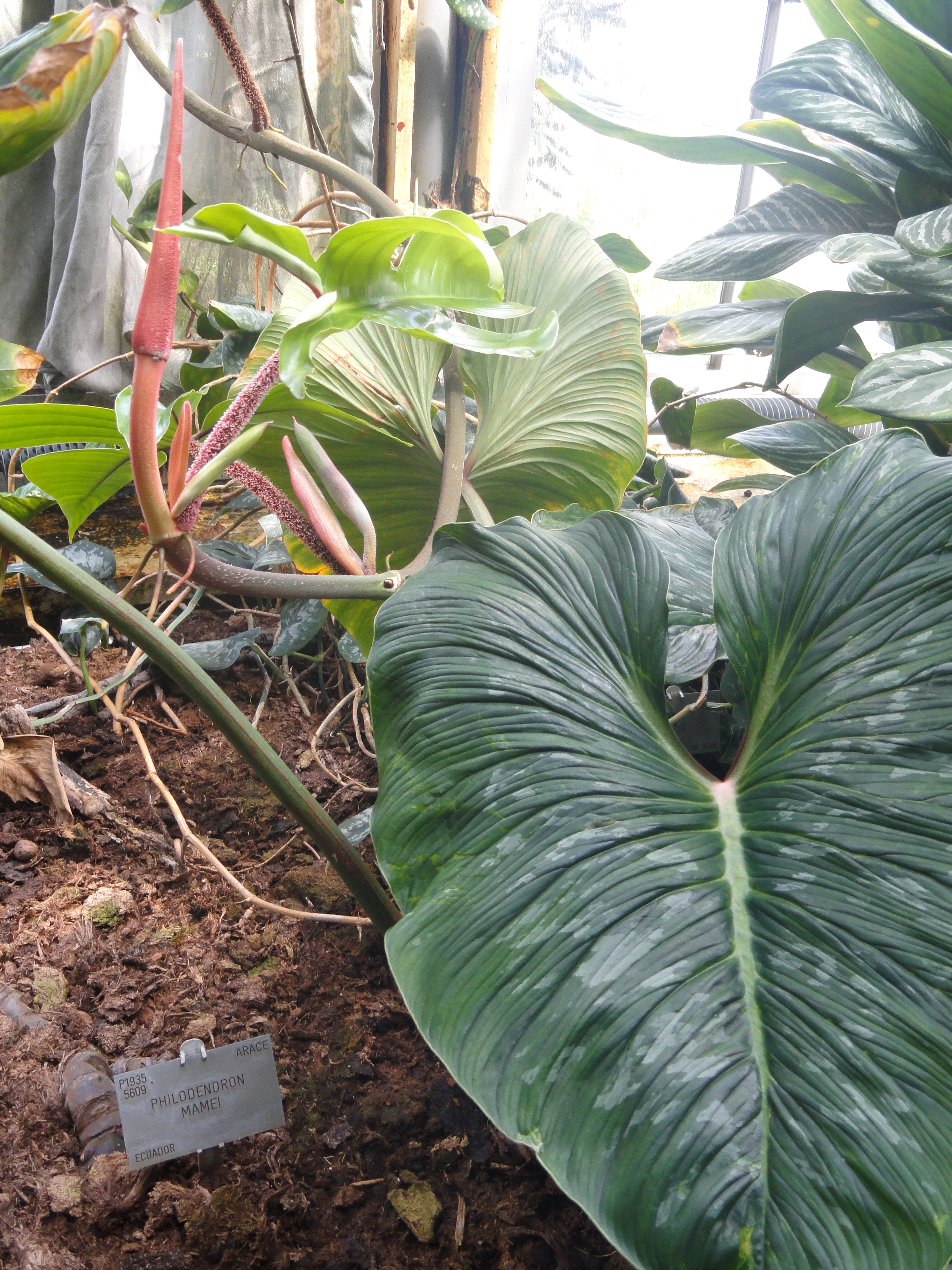 Botanical specimen in the University of Copenhagen Botanical Garden, Copenhagen, Denmark.